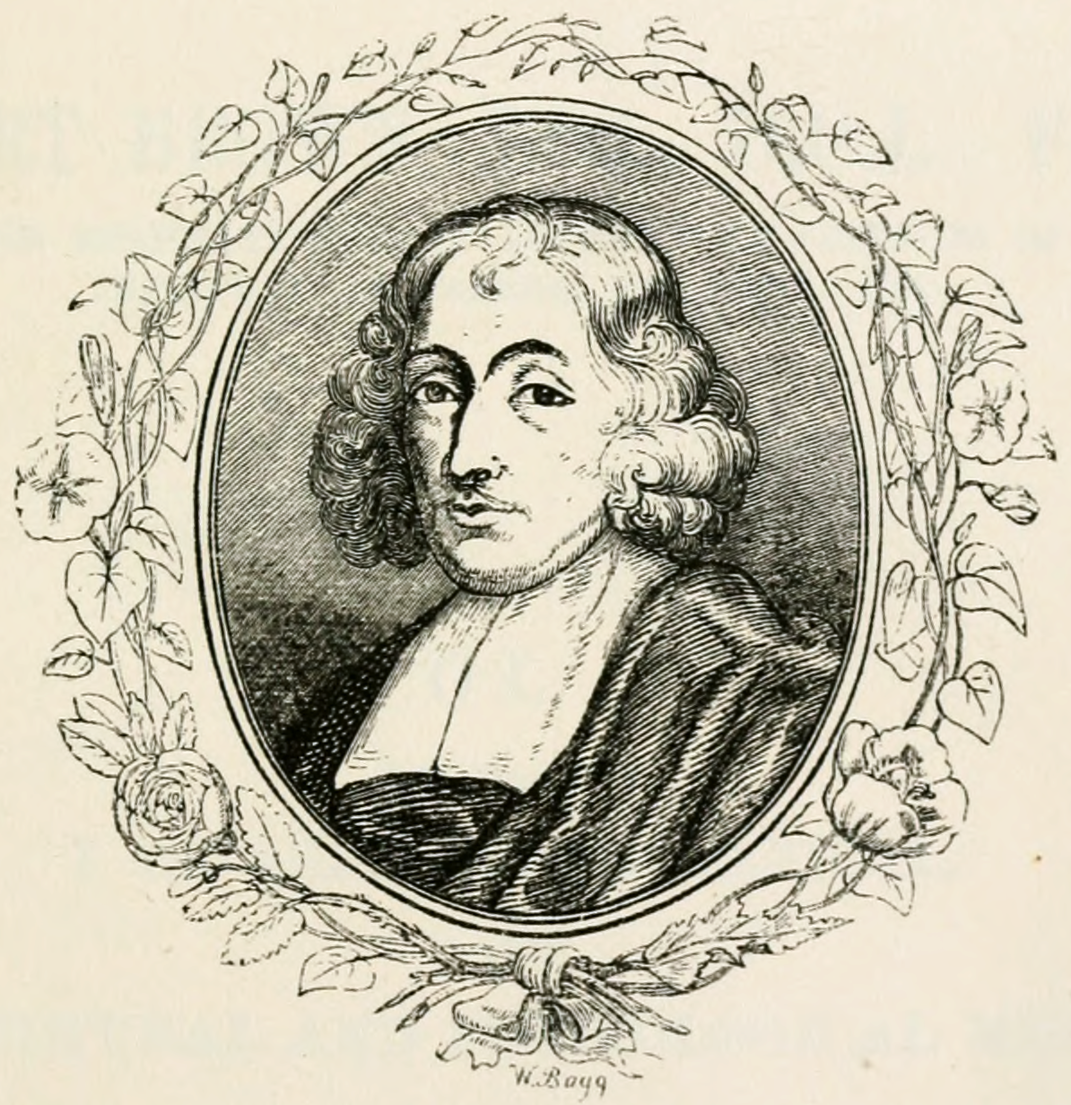 This is an engraving of John Ray. It appeared on the half-title page of books published by the Ray Society.